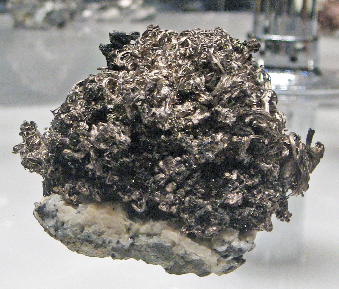 Silver from the Czech Republic. (public display, Carnegie Mus. of Natural History, Pittsburgh, Pennsylvania, USA) A mineral is a naturally-occurring, solid, inorganic, crystalline substrance having a fairly definite chemical composition and having fairly definite physical properties. At its simplest, a mineral is a naturally-occurring solid chemical. Currently, there are over 4900 named and described minerals - about 200 of them are common and about 20 of them are very common. Mineral classification is based on anion chemistry. Major categories of minerals are: elements, sulfides, oxides, halides, carbonates, sulfates, phosphates, and silicates. Elements are fundamental substances of matter - matter that is composed of the same types of atoms. At present, 118 elements are known (four of them are still unnamed). Of these, 98 occur naturally on Earth (hydrogen to californium). Most of these occur in rocks & minerals, although some occur in very small, trace amounts. Only some elements occur in their native elemental state as minerals. To find a native element in nature, it must be relatively non-reactive and there must be some concentration process. Metallic, semimetallic (metalloid), and nonmetallic elements are known in their native state as minerals. Silver is part of the gold-group of metallic elements. Silver is a precious metal, but is far less valuable than gold or platinum. Silver usually occurs as a silver sulfide mineral, but it also occurs in nature in its native state, often in the form of twisted wires. Silver is moderately soft and has a silvery-white color on fresh surfaces that tarnishes to darker colors. Elemental silver in nature is often found alloyed with other metals. Naturally alloyed gold-silver is called electrum.